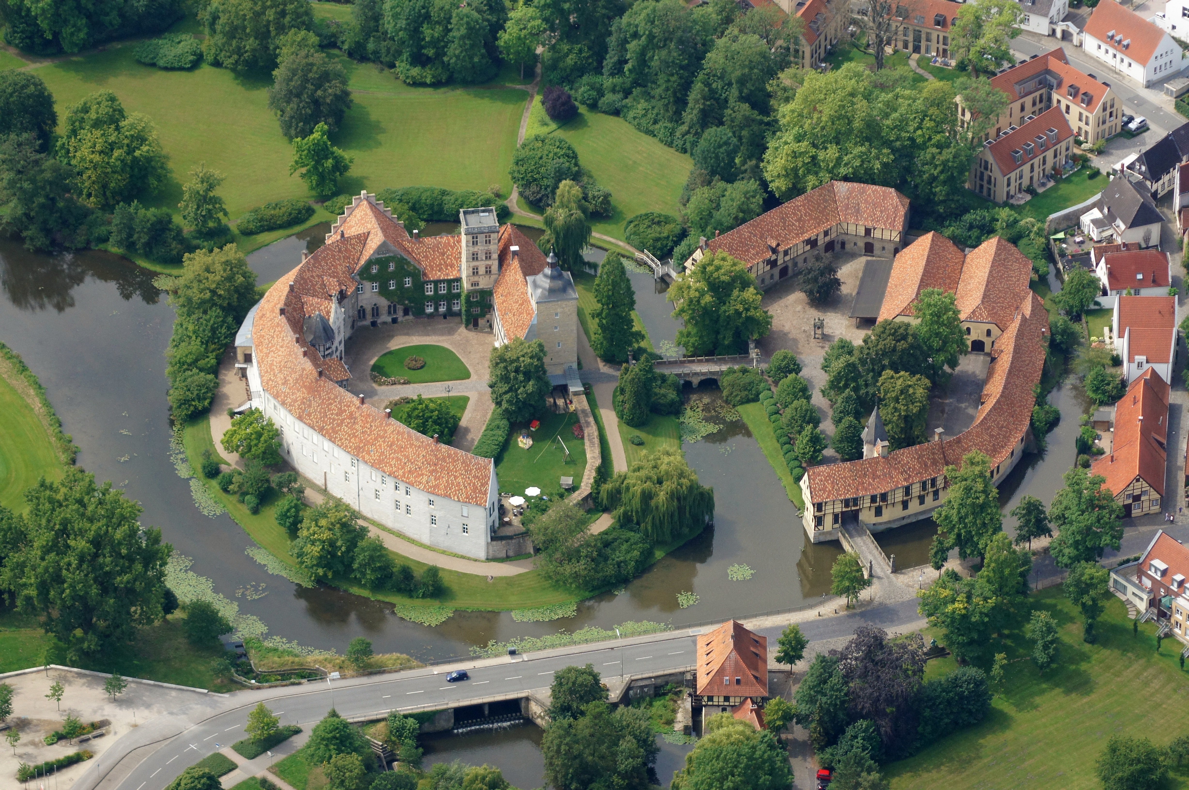 Schloss Burgsteinfurt is a castle in Steinfurt, district of Steinfurt in North Rhine-Westphalia, Germany.